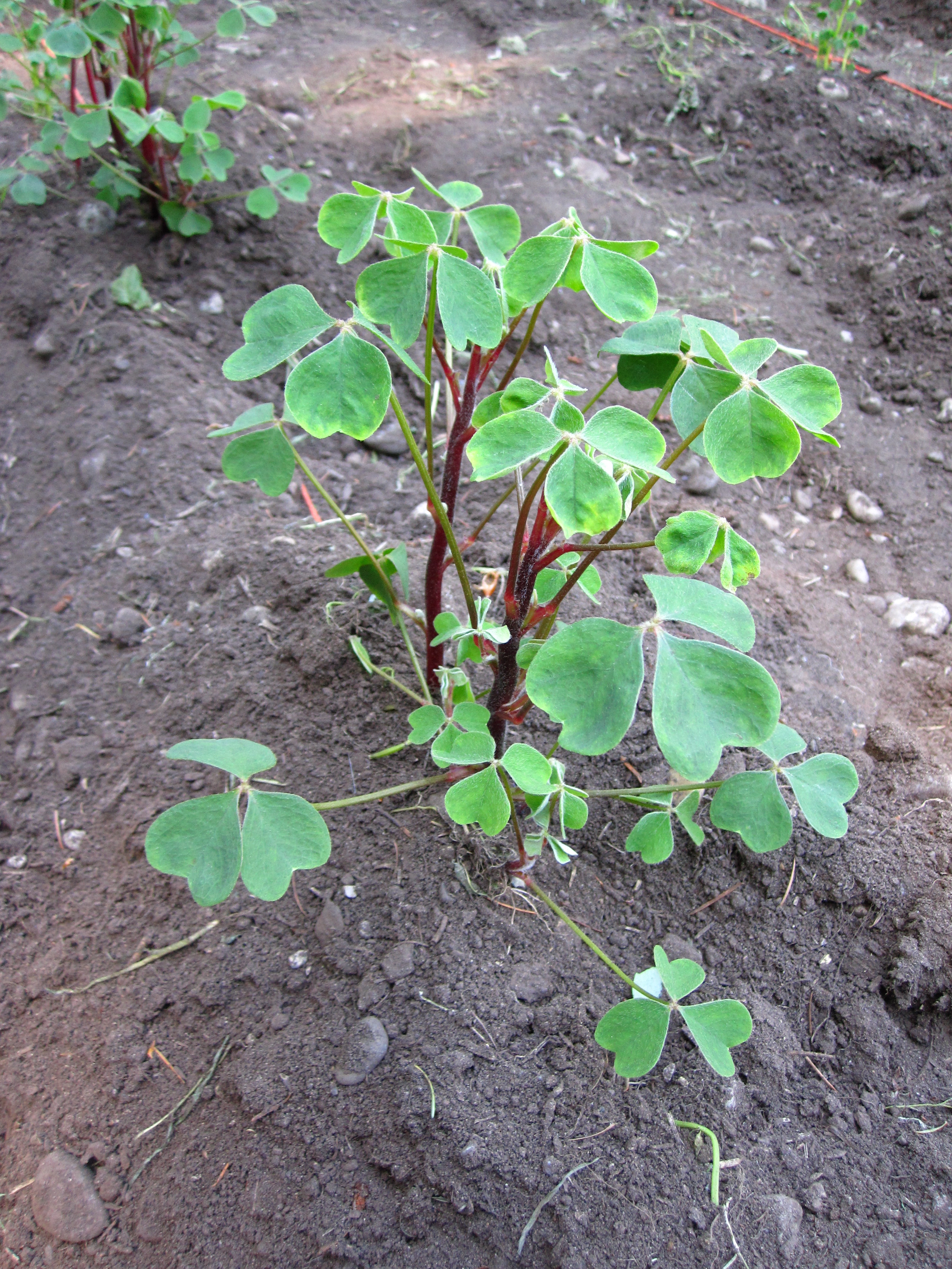 A young oca (Oxalis tuberosa) plant with red stems. Grown in Rochester, Washington.